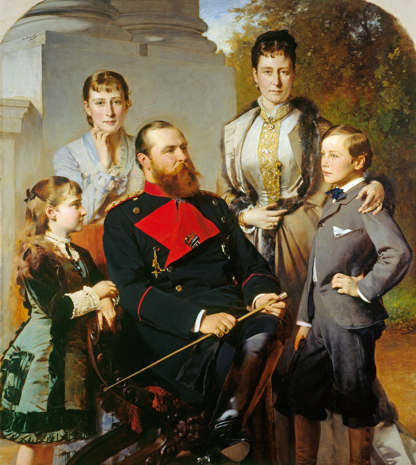 Louis, the Grand Duke of Hesse is seated, surrounded by his family. His wife Alice stands behind him, resting her left arm on the shoulder of Prince Ernest. Princess Elizabeth stands behind her father; Princess Alix stands on the left.